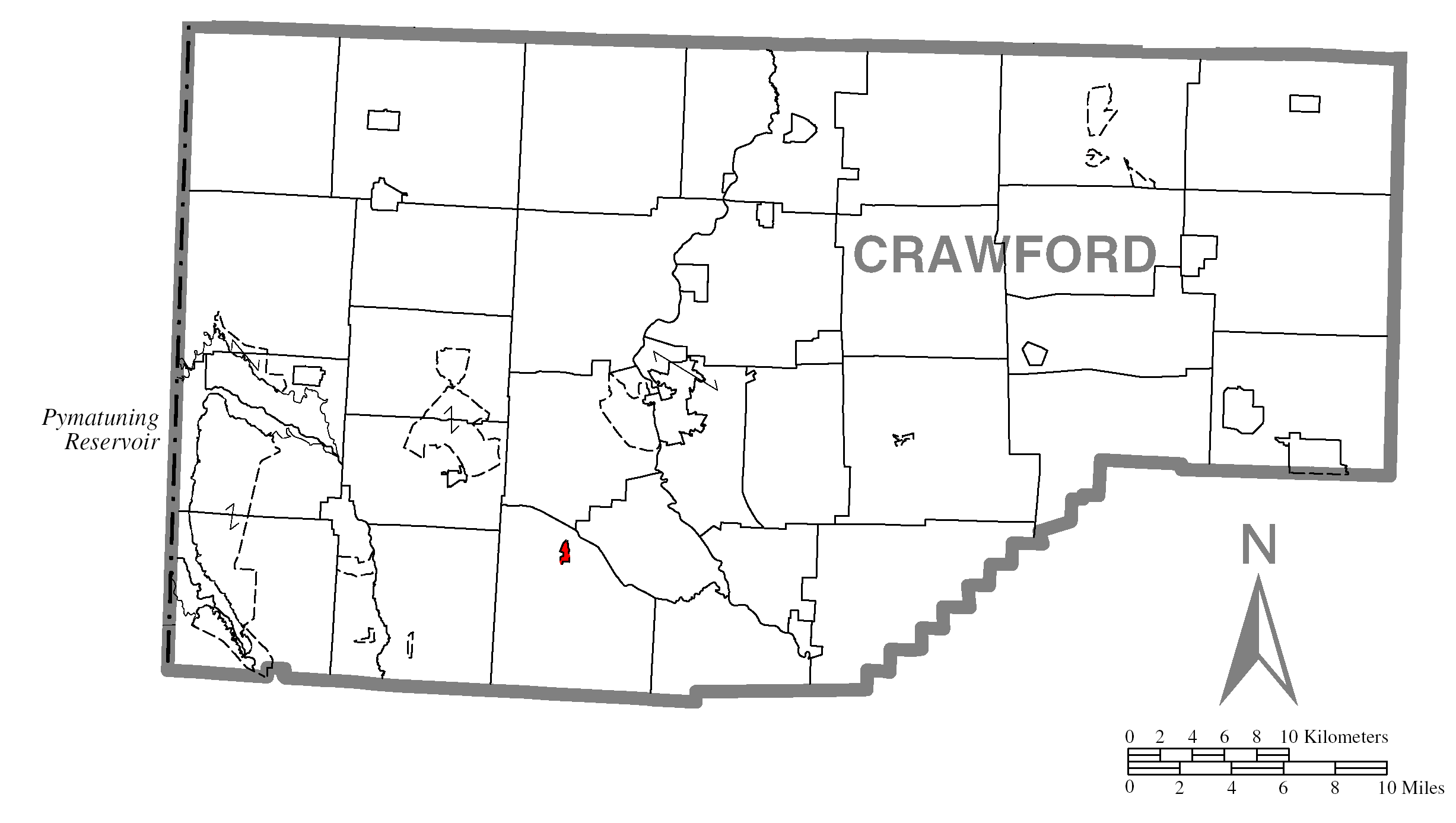 Map of Crawford County higlighting Geneva.